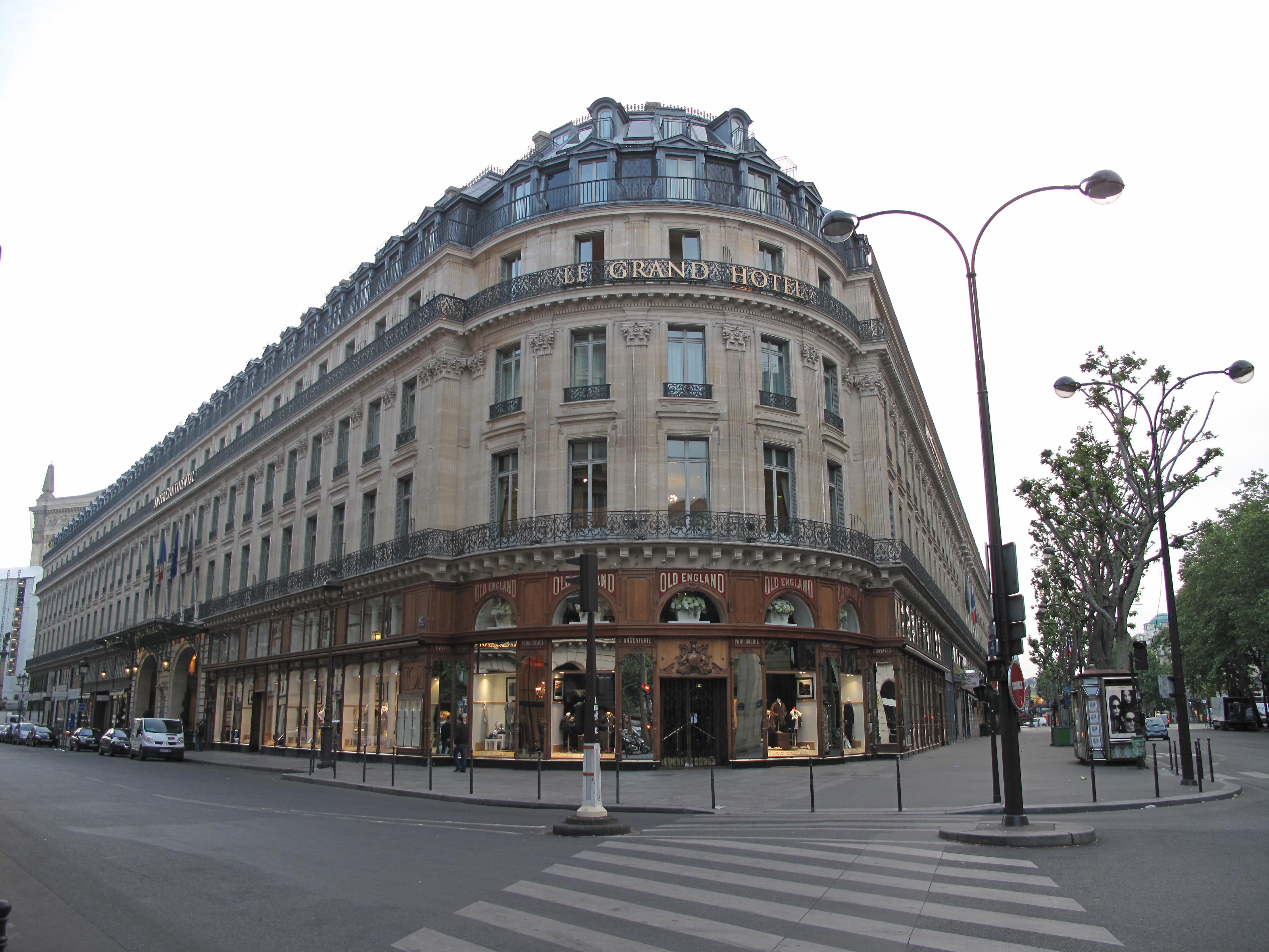 The Grand Hôtel seen from the corner of the boulevard des Capucines and the rue Scribe : Paris 9th arr.